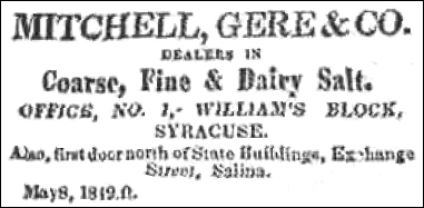 Mitchell, Gere & Company - Dealers in Coarse, Fine and Dairy Salt - William's Block - Syracuse, New York